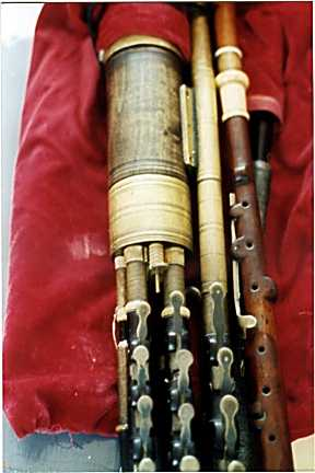 А picture of an Irish Pipes